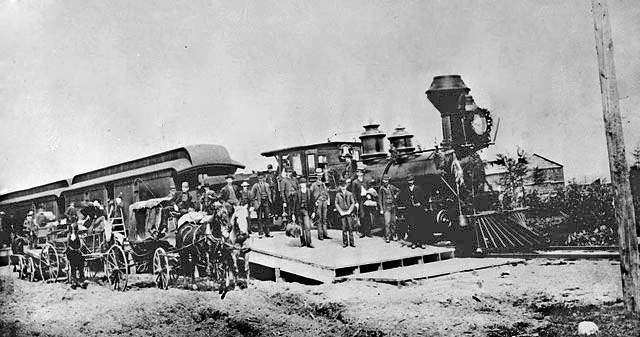 The first train to travel from the Atlantic to the Pacific at Port Arthur, Ontario